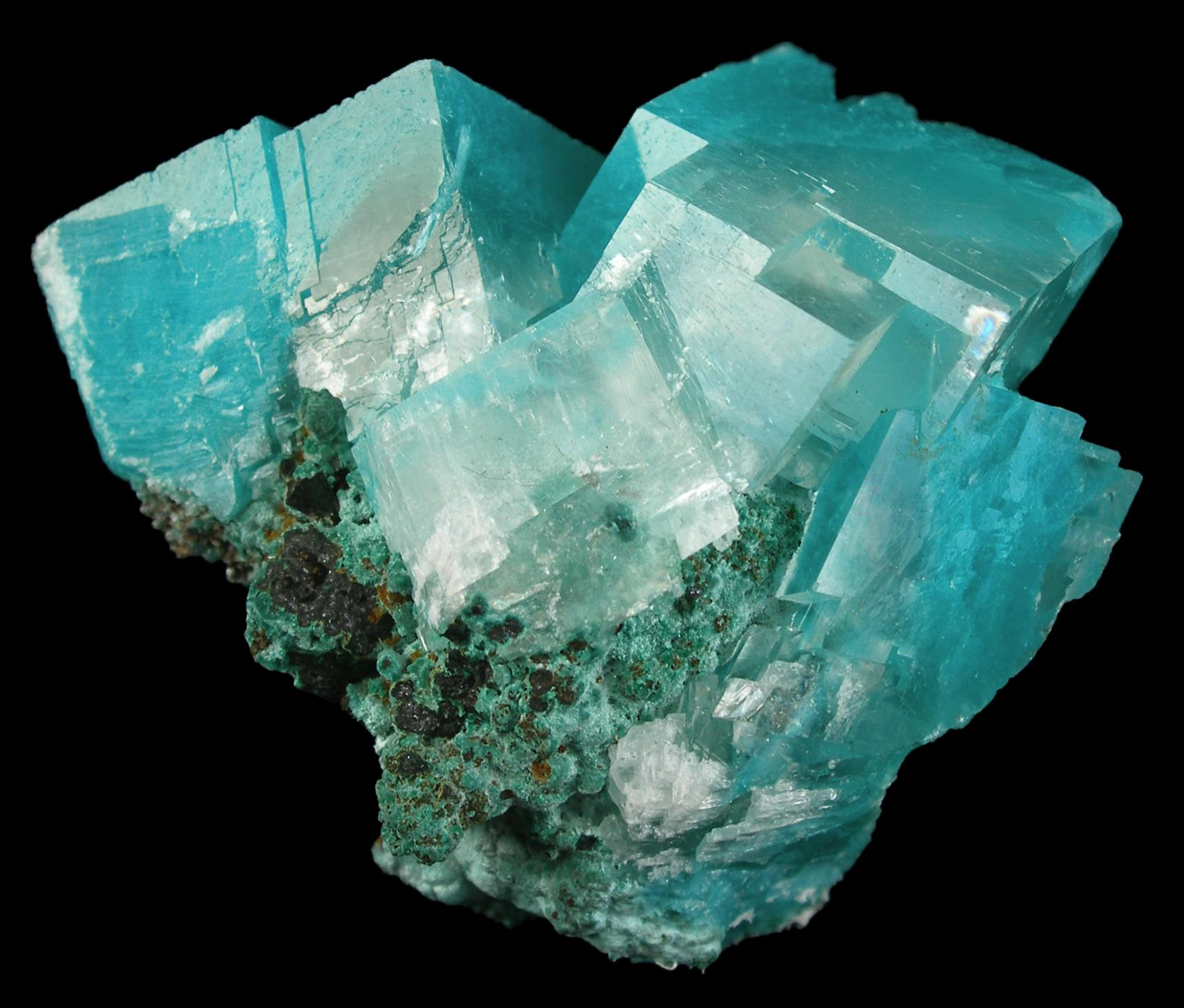 Aurichalcite, Calcite Locality: Ojuela Mine, Mapimí, Municipio de Mapimí, Durango, Mexico (Locality at ) Size: miniature, 4.1 x 3.2 x 2.7 cm Aurichalcite in Calcite Fibrous aurichalcite has partially included this matrix specimen of rhombohedral calcite, giving it a two-tone color effect. Most crystals of this find are slightly included or fully included, making this unusual. The rhombs reach 1.8 cm across, and are glassy and translucent. Both major rhombs are complete, though with very minor edge wear on rear corners; but the smaller white crystal in front-middle is probably a cleave (perhaps in the pocket), and so the price is reduced. Where the aurichalcite inclusions are most present, the crystals exhibit a rich, teal color. Where they are less present, the crystals are nearly colorless. Very aesthetic!